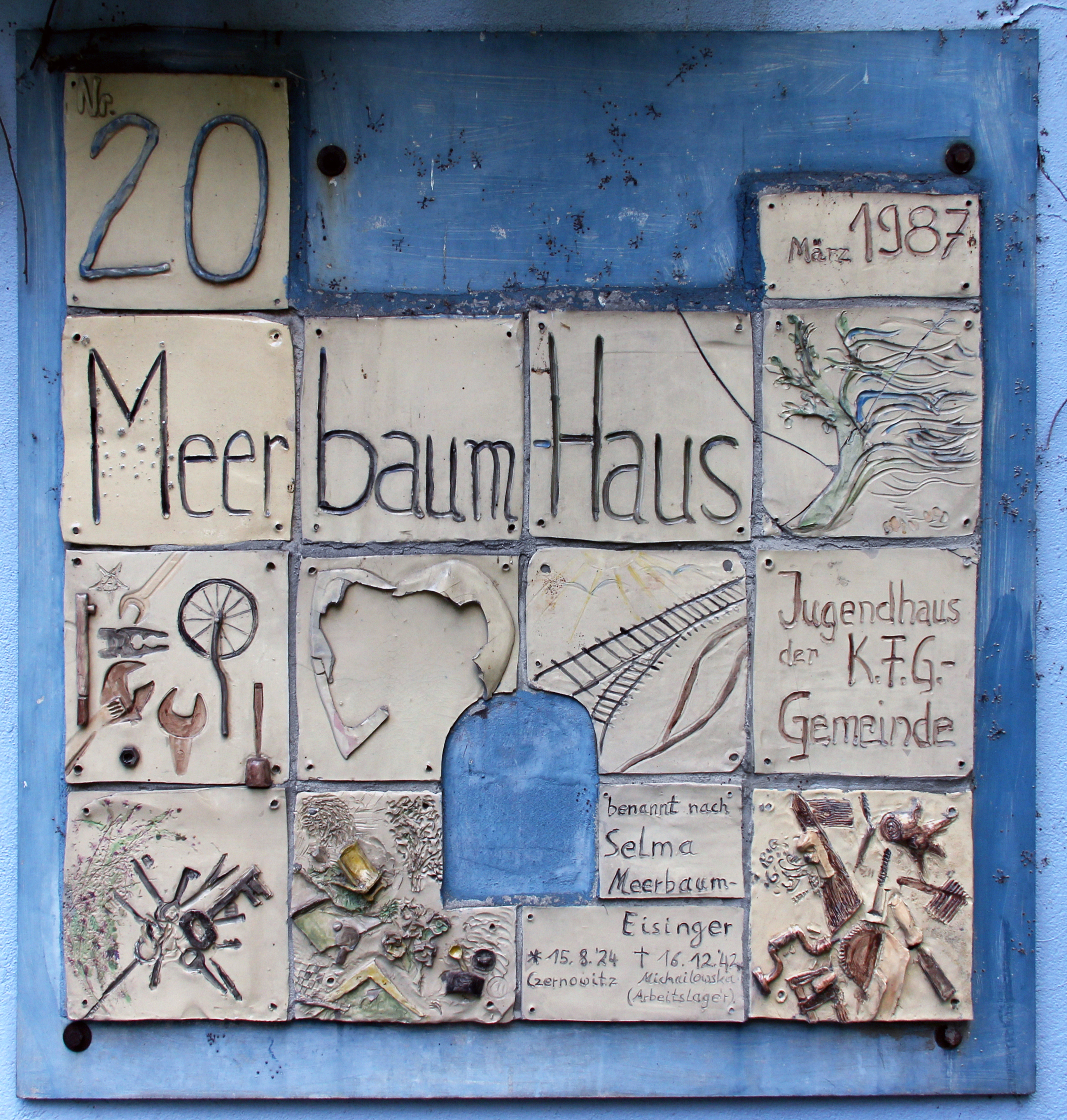 Memorial plaque, Meerbaum Haus, Siegmunds Hof 20, Berlin-Hansaviertel, Deutschland